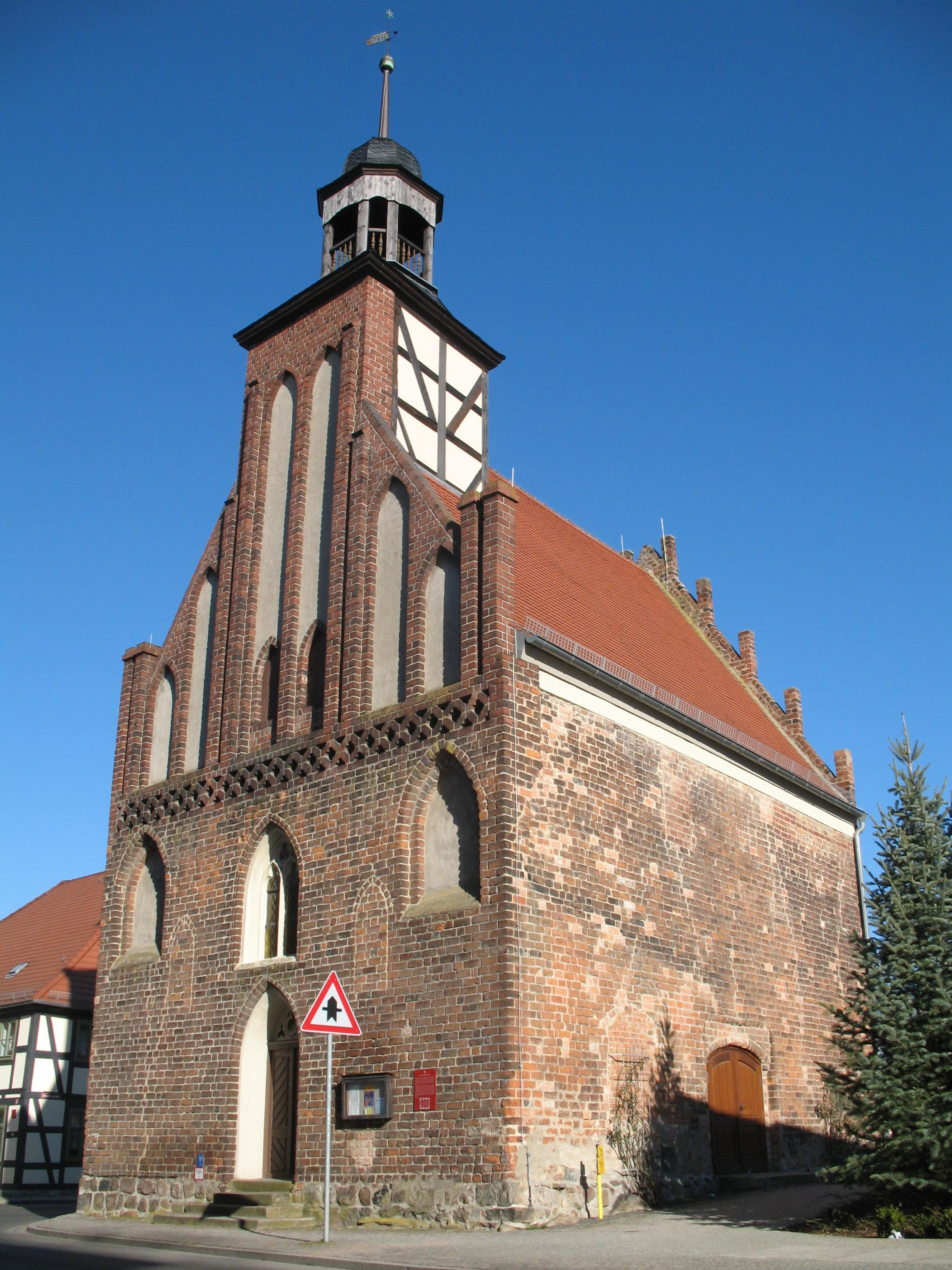 Holy Spirit Chapel in Angermünde in Brandenburg, Germany